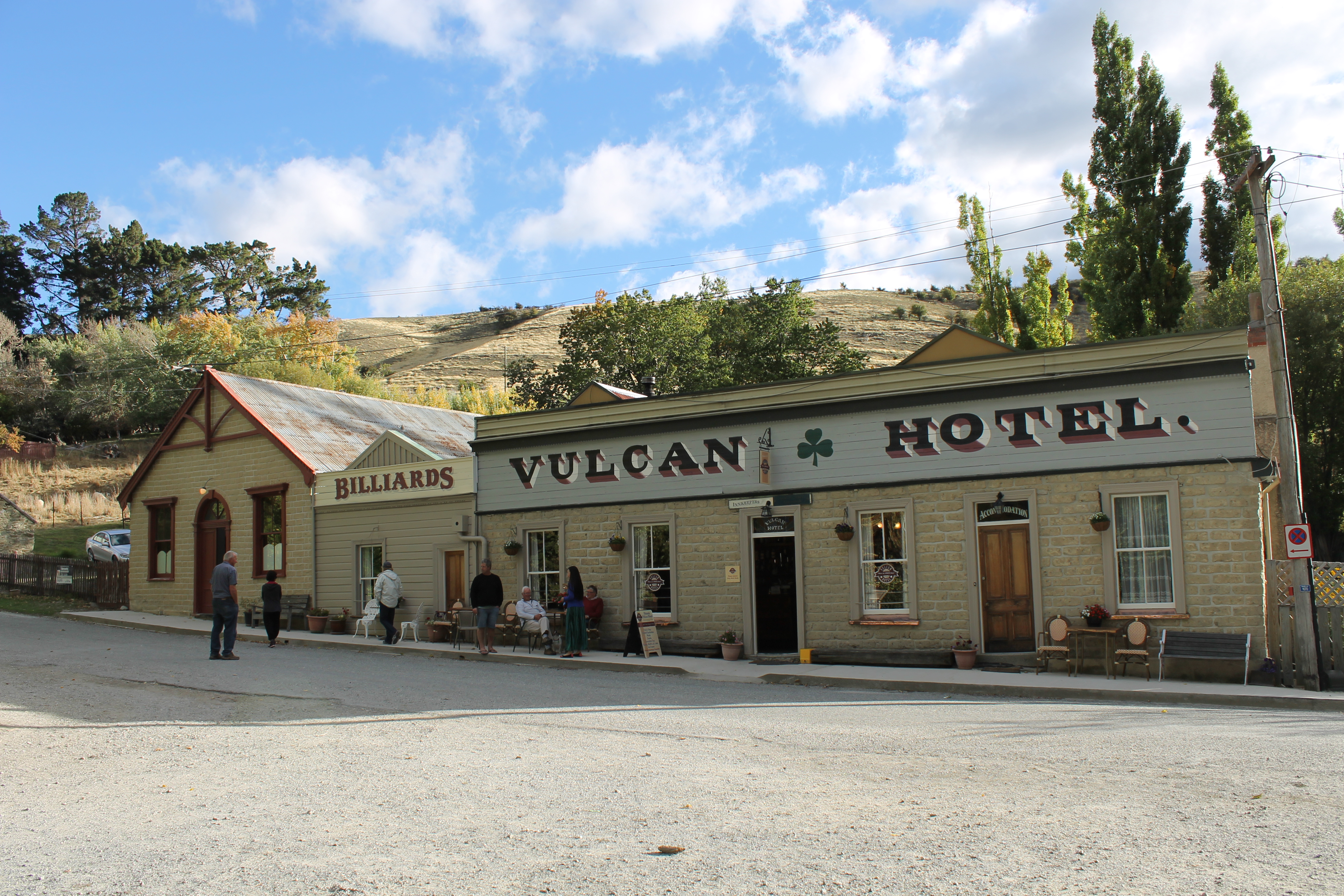 Vulcan Hotel in April 2015